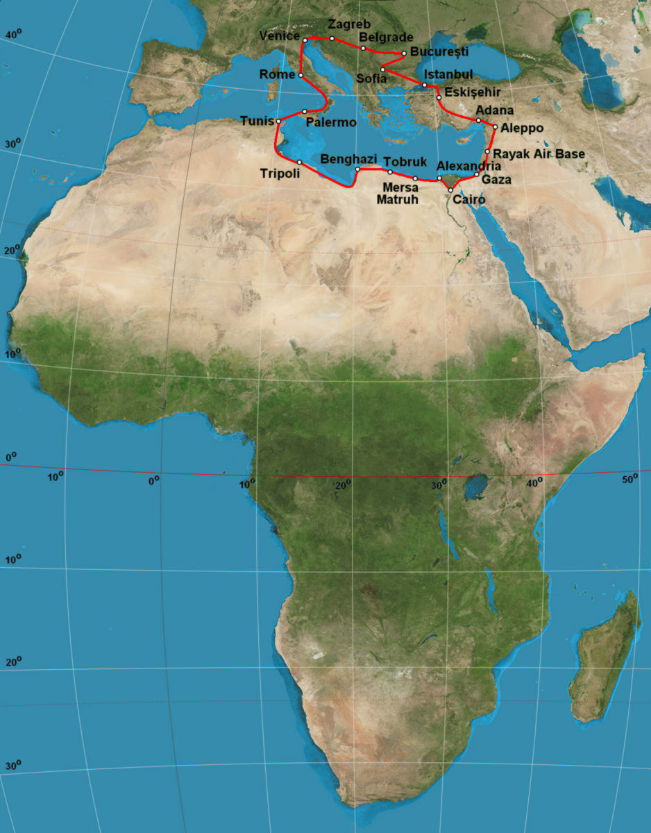 Route of Bănciulescu's raid in Africa, 1934